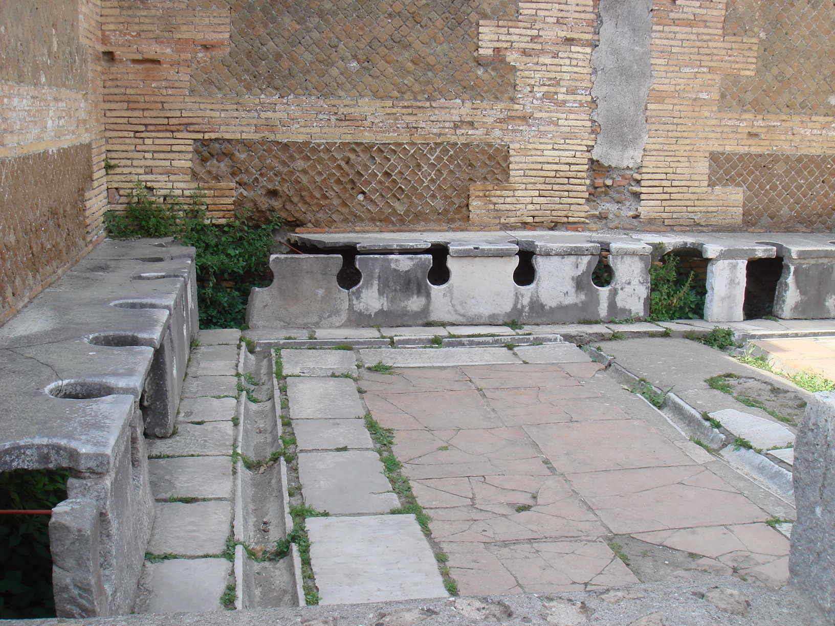 Ostia Antica (Rome, Italy), Ancient Roman public toilets. Picture by Stefano Bolognini, April 29 2007.